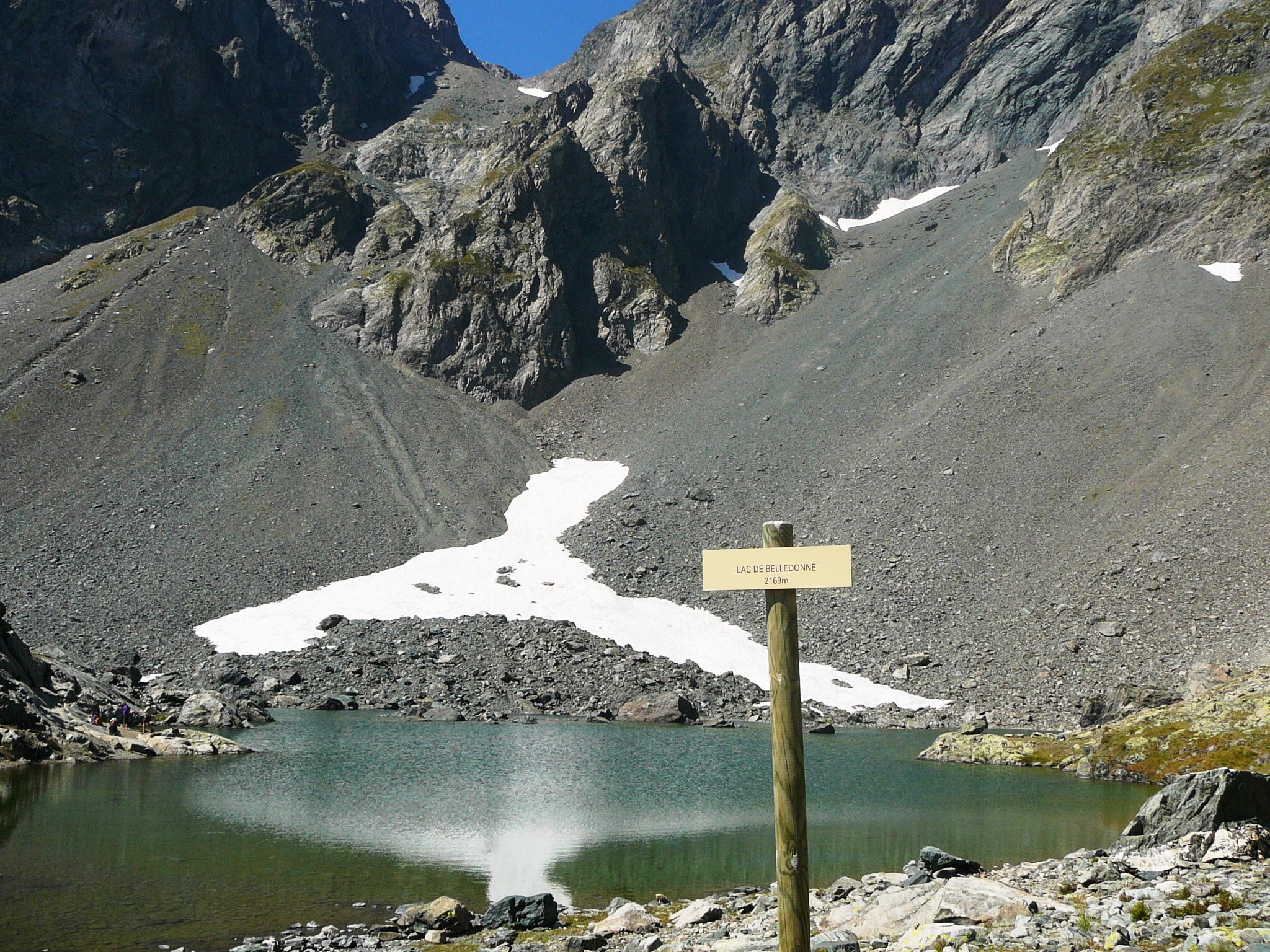 Belledone Lake